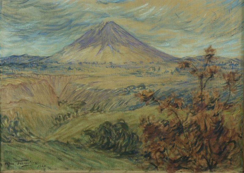 Painting of a Javan volcano by Max Fleischer